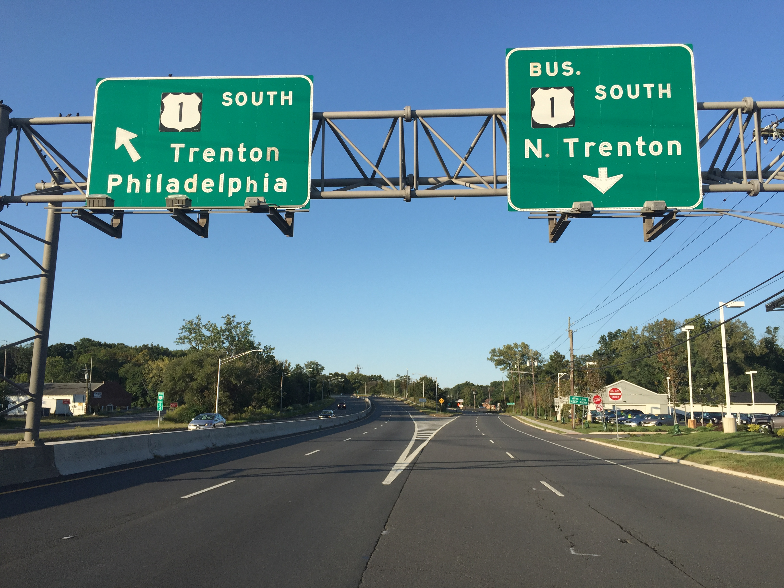 View south along U.S. Route 1 (Trenton Freeway) at U.S. Route 1 Business (Brunswick Pike) in Lawrence Township, Mercer County, New Jersey